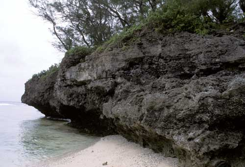 This is the spot where Captain Cook came ashore in 1777, Atiu, Cook Islands.